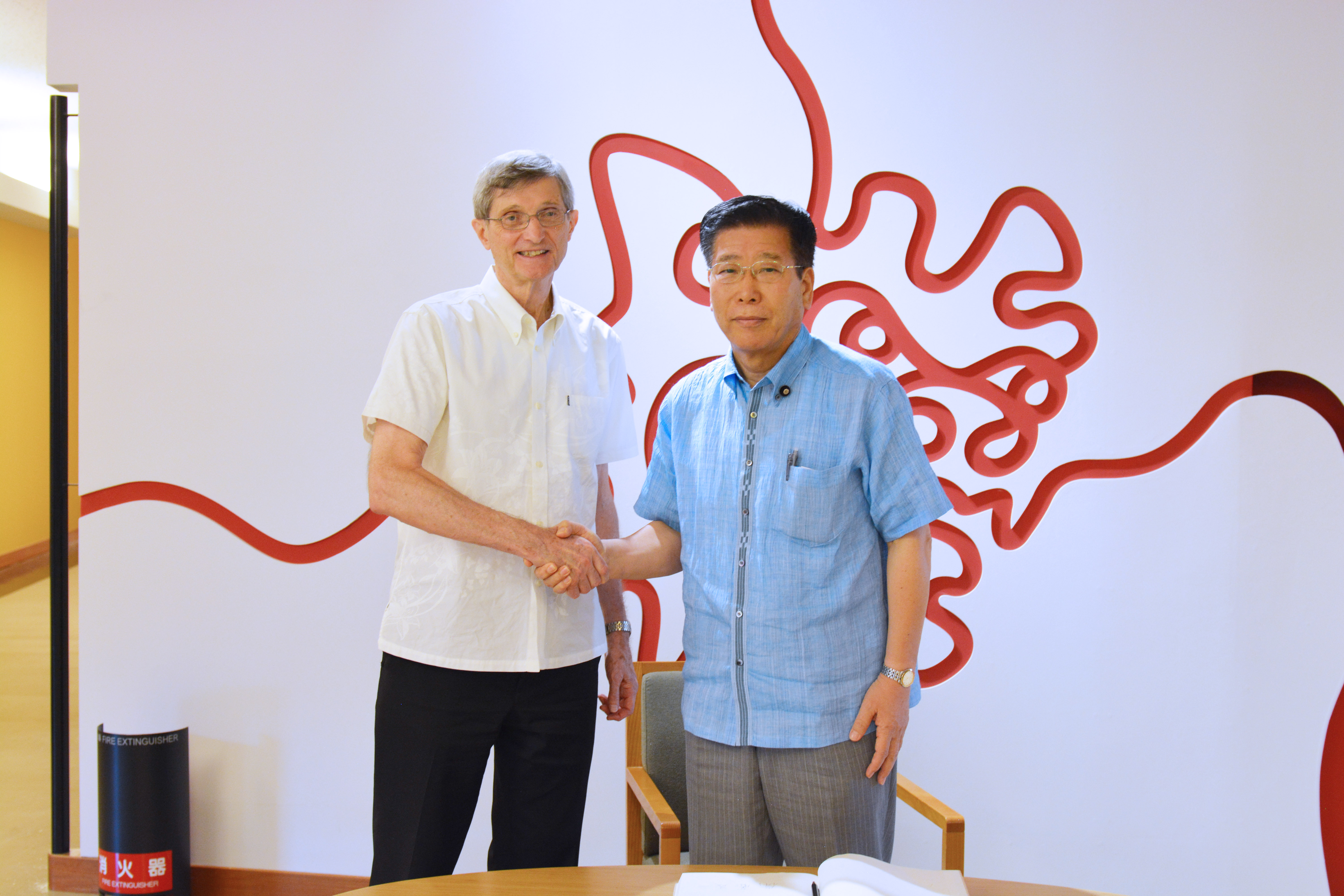 Visit of Minister Eto; 衛藤大臣御訪問